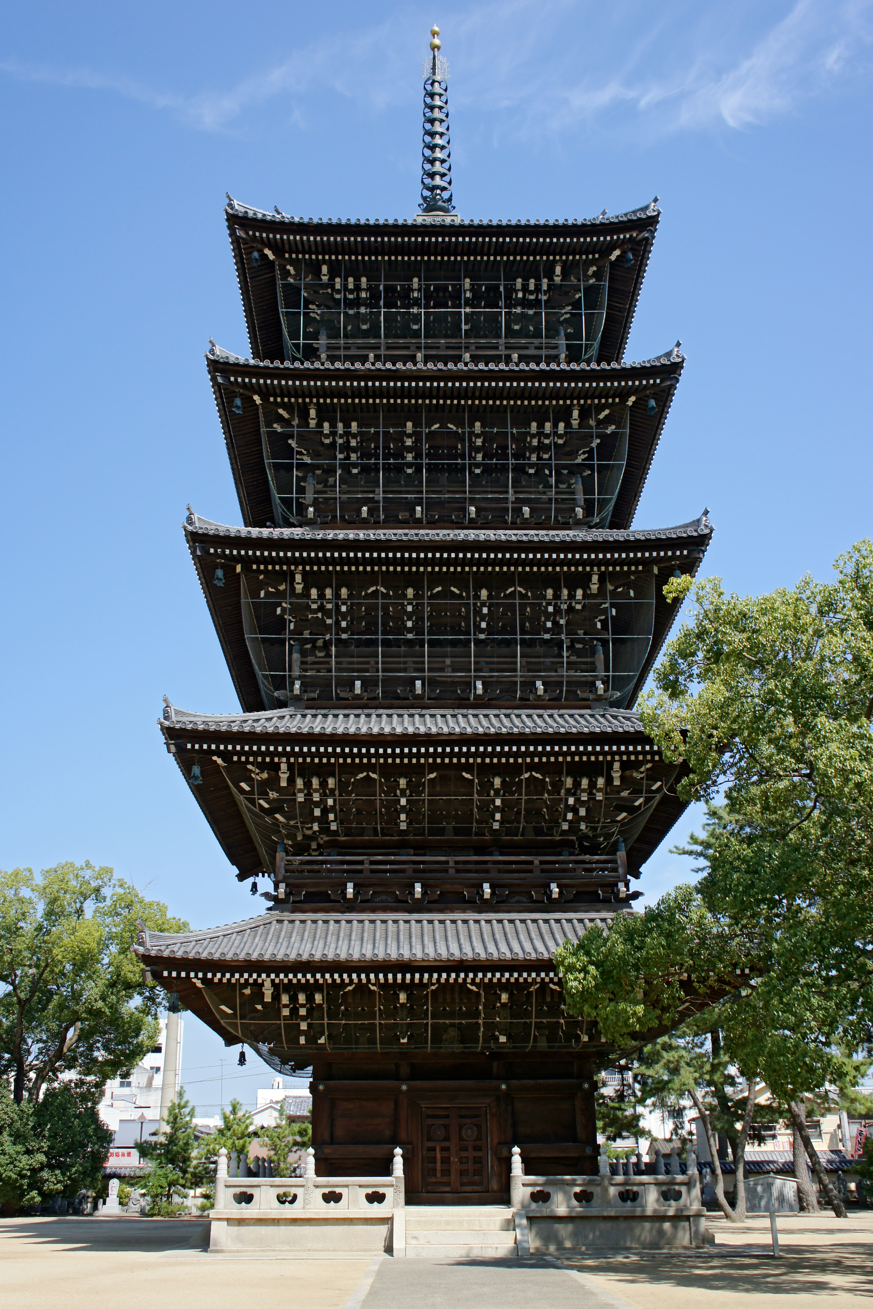 Zentsu-ji in Zentsuji, Kagawa prefecture, Japan.